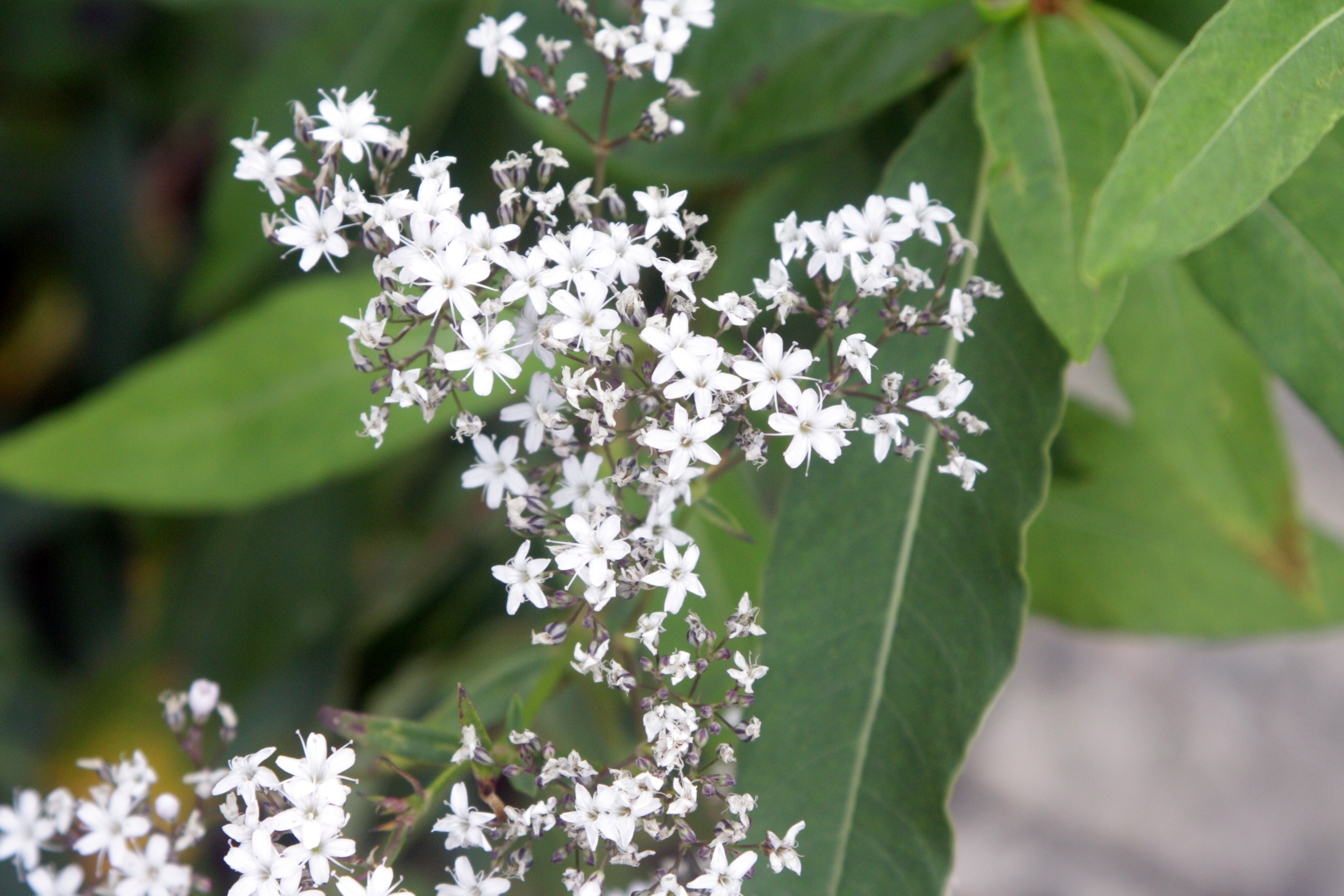 Gypsophila oldhamiana